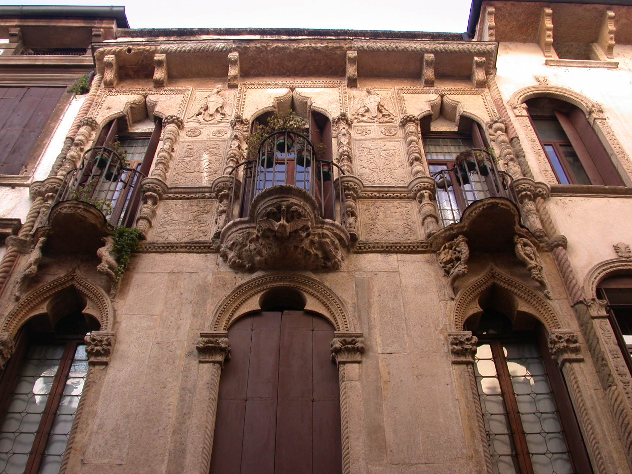 House of Antonio Pigafetta, Vicenza, Italy.